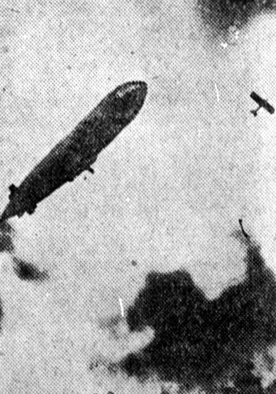 Original caption: Nothing in modern warfare is more dramatic than the battles between aircraft. The photograph shows an action between a German aeroplane and a French dirigible airship.